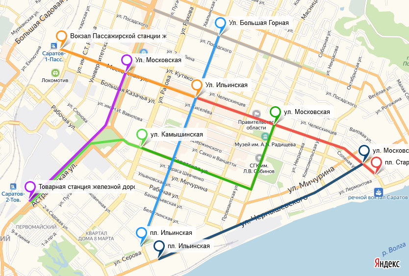 Scheme of horse-driven city railway of Saratov, Russia according to project. 1885 A.D. on the modern map